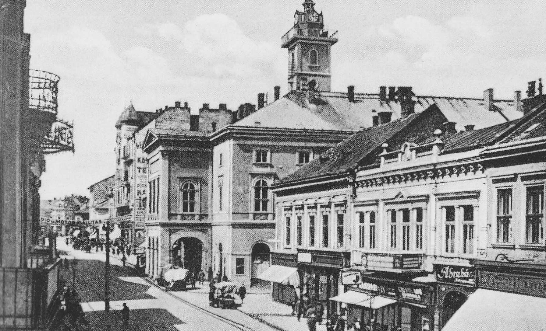 25 Szechenyi Street Miskolc, around 1910, Miskolc, Hungary